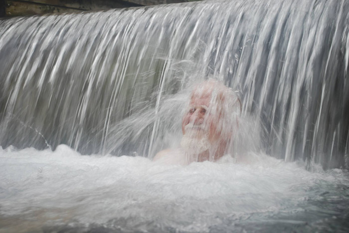 Hans Blohm in the Liard River Hot Springs alonside the Alaska Highway, August 2009